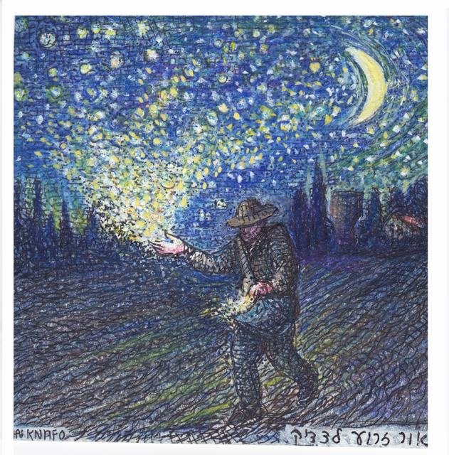 Starlight Sower painting by the international renowned artist Hai Knafo who was inspired by Or Zaruaa Synagogue in Jerusalem 2011 ( "Light is sown for the righteous" Psalms, chapter 97 verse 11.)